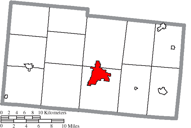 Map of the municipal and township boundaries of Champaign County, Ohio, United States, as of the 2000 census, with the location of the city of Urbana highlighted. Township borders are shown only in unincorporated areas in order to differentiate incorporated and unincorporated areas more clearly.